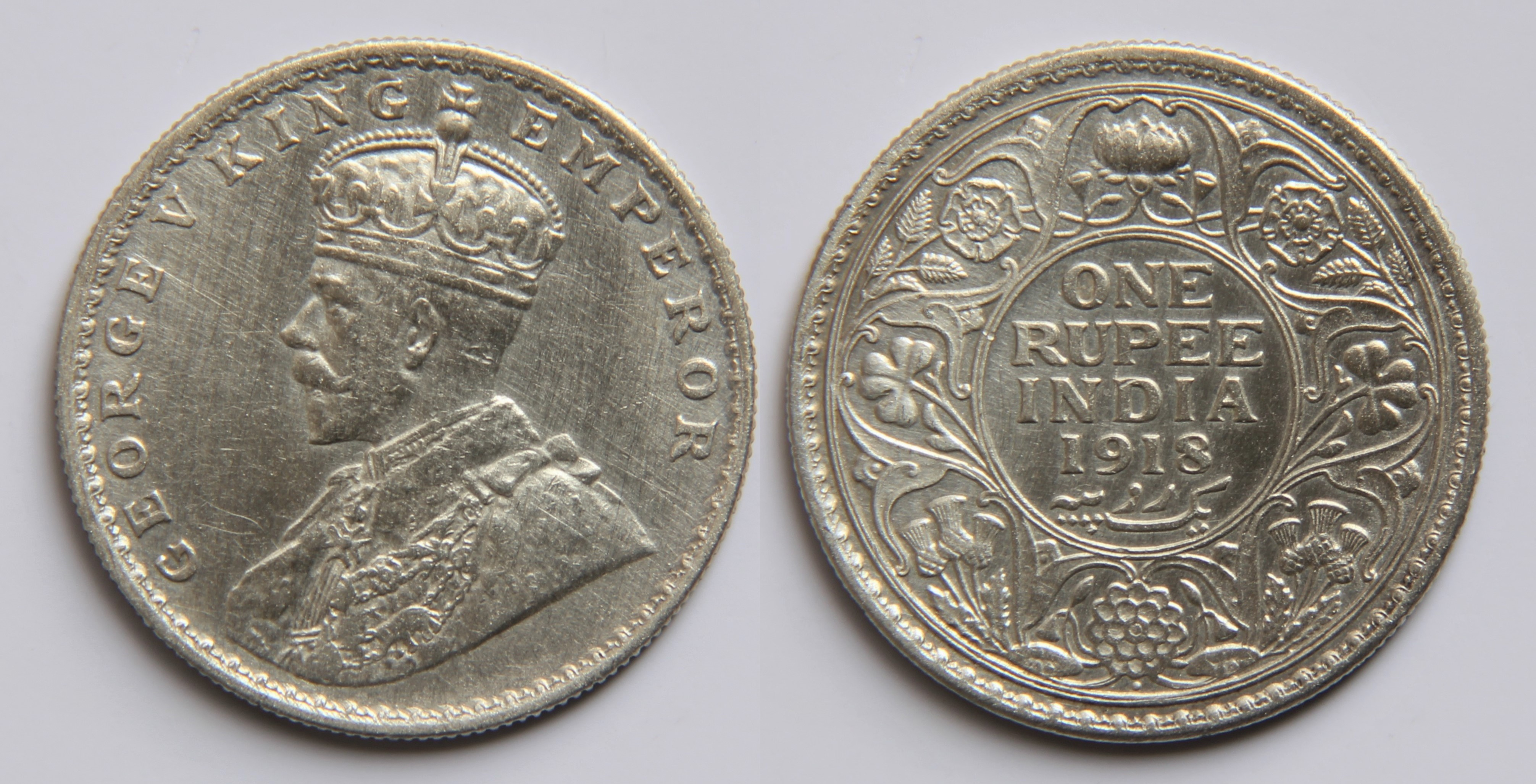 Face value: 1 Indian rupee coin. Country: Indian. Year of minting: 1918. Metal: Silver. Shape: Round. Obverse: Profile of George V surrounded by his name. Reverse: Face value, country and date surrounded by wreath made of roses, thistle, shamrock leaves and lotus flowers. Edge: Reeded. Weight: 11.66 g. Diameter: 30.5 mm. Thickness: 1.9 mm. Orientation: Medal alignment ↑↑. Total mintage: 1,798,039,071 (1912 to 1922) Engraver: Bertram Mackennal. Comment: Made of 91.7% silver. This coin was minted at the Bombay mint since there is a small at at bottom of reverse. Monetization status: Demonetized. Data source: This webpage.